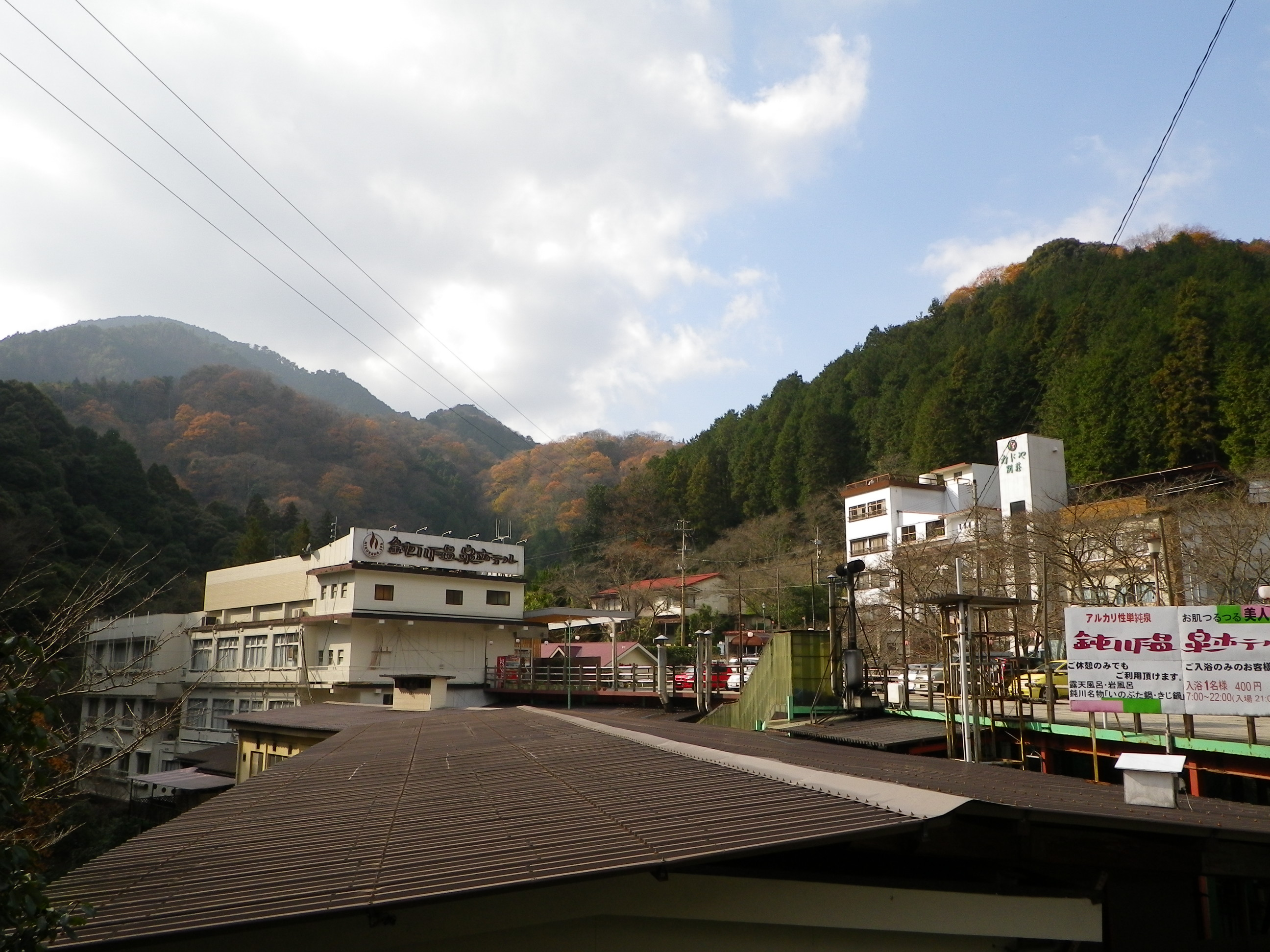 Nibukawa_onsen_spa